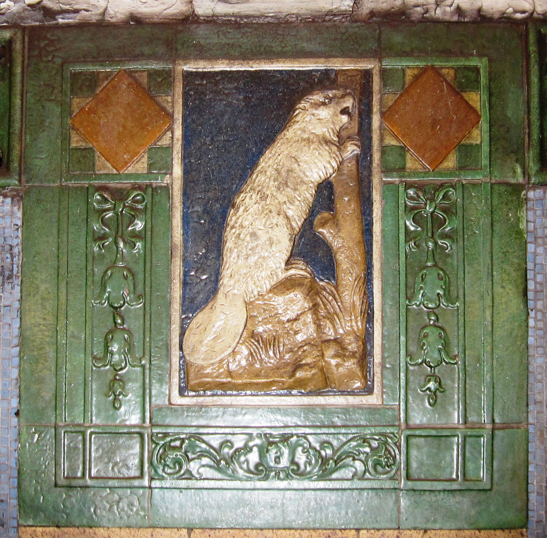 Astor Place (IRT Lexington Avenue Line)